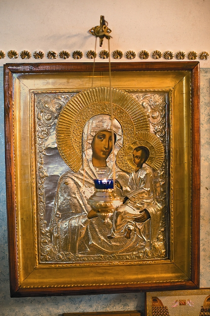 Tikhvinskaja icon of the Virgin